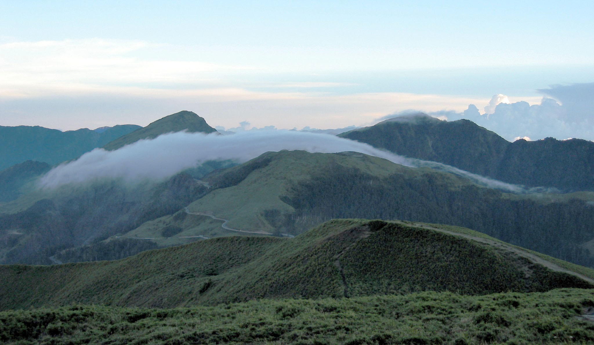 Hehuanshan Hehuan mountain, Taiwan.